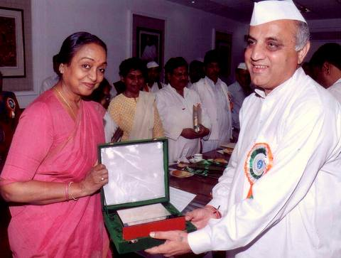 Lok Sabha Speaker Smt Meira Kumar presenting Lok Sabha Memento to Padmashri S.P.Varma Vice President Gandhi Global Family during the function.